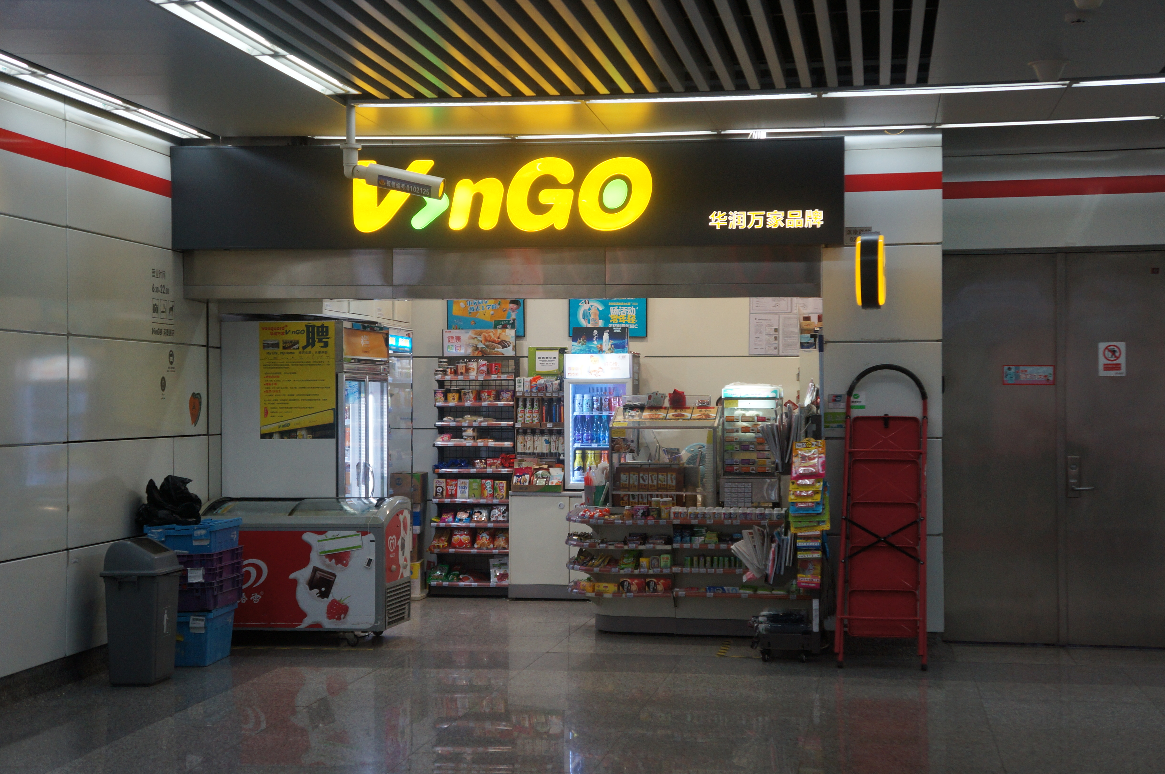 201607 A vango store at Binkang Road Station